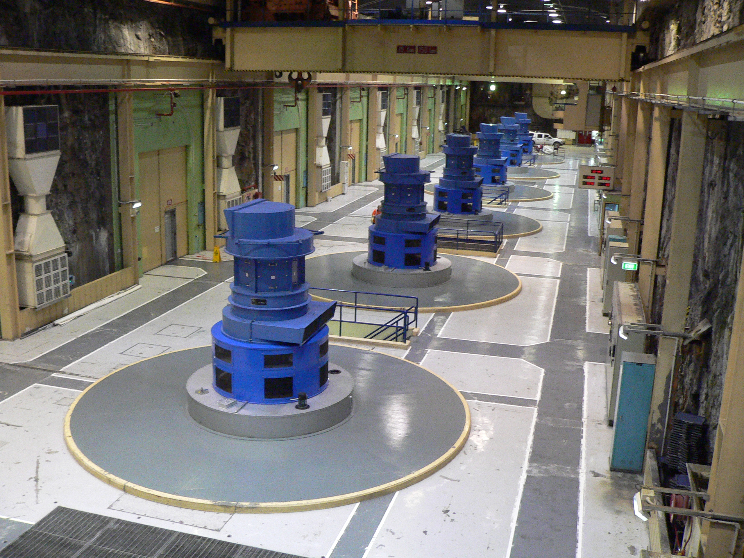 Manapouri Power Station - Turbine Hall